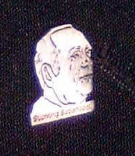 Pin, for the laureates of the Gaanman Gazon Matodja Award, the highest maroon distinction of Suriname, called after Gazon Matodja, choef of the Ndyuka maroons. The inscription says Stichting Sabanapeti, the name of the maroon organisation in Utrecht (The Netherlands) which is responsable for the award